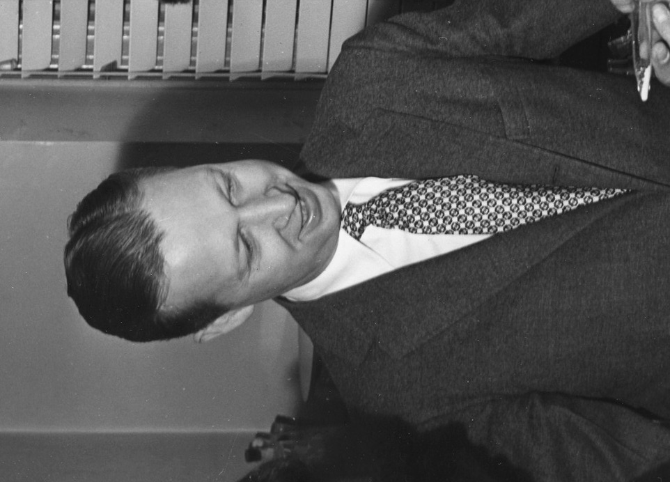 Karl August Folkers (1906-1997), American biochemist Local number: SIA Acc. 90-105 [SIA-SIA2008-1616] Cite as: Acc. 90-105 - Science Service, Records, 1920s-1970s, Smithsonian Institution Archives Persistent URL: [1] Repository: Smithsonian Institution Archives